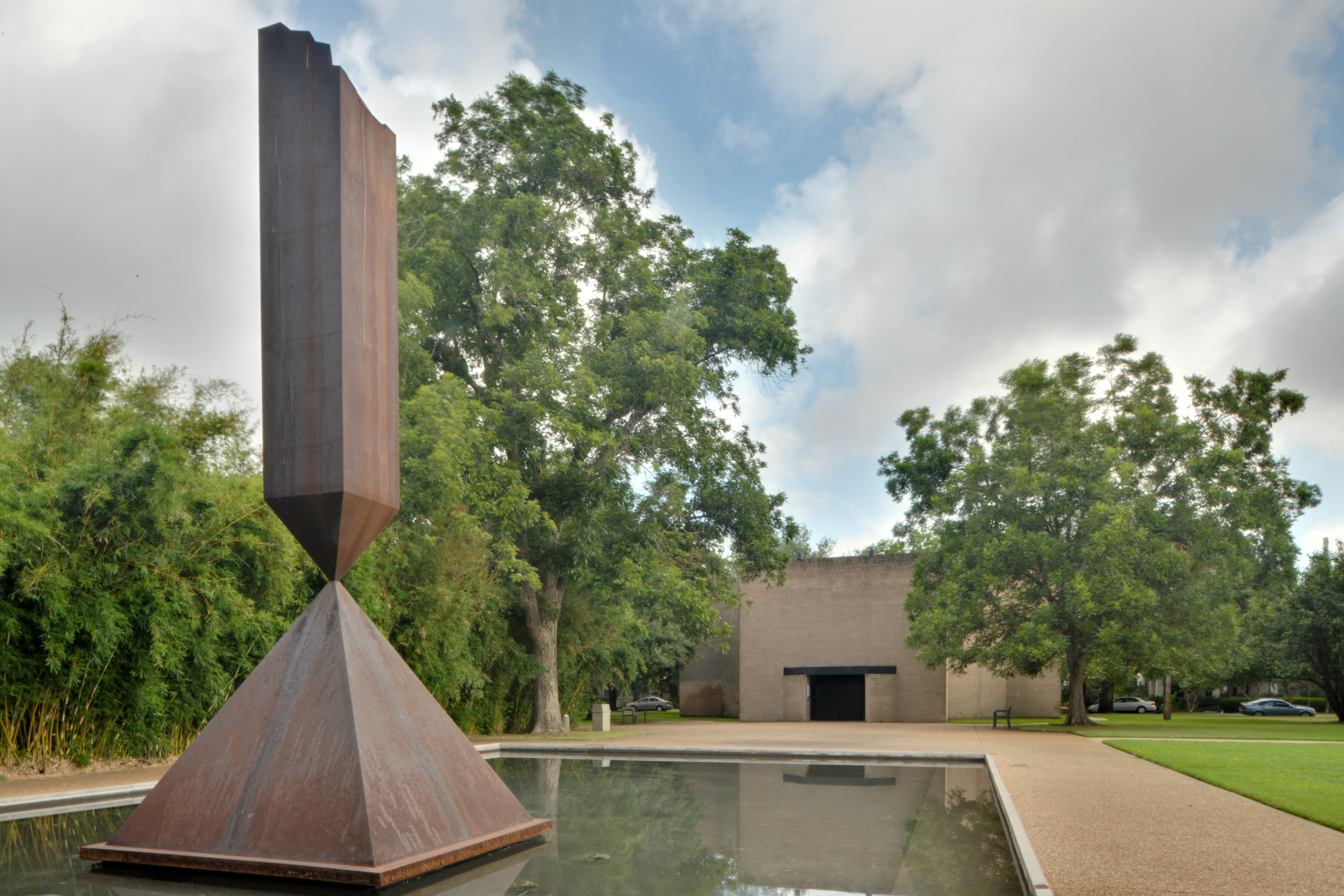 The outdoor sculpture, "Broken Obelisk" by Barnett Newman, is permanently installed in the reflecting pool on the grounds of Rothko Chapel in Houston, Texas, USA.